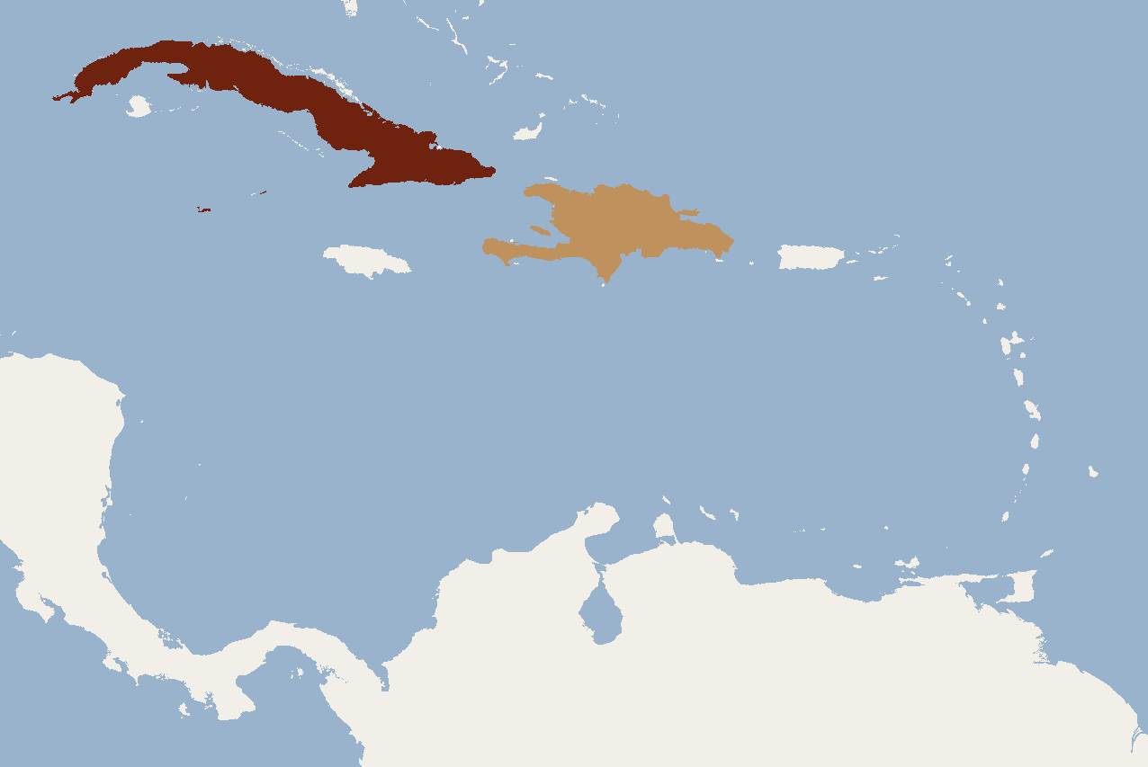 Geographical distribution of Phyllops falcatum according to Museum specimens